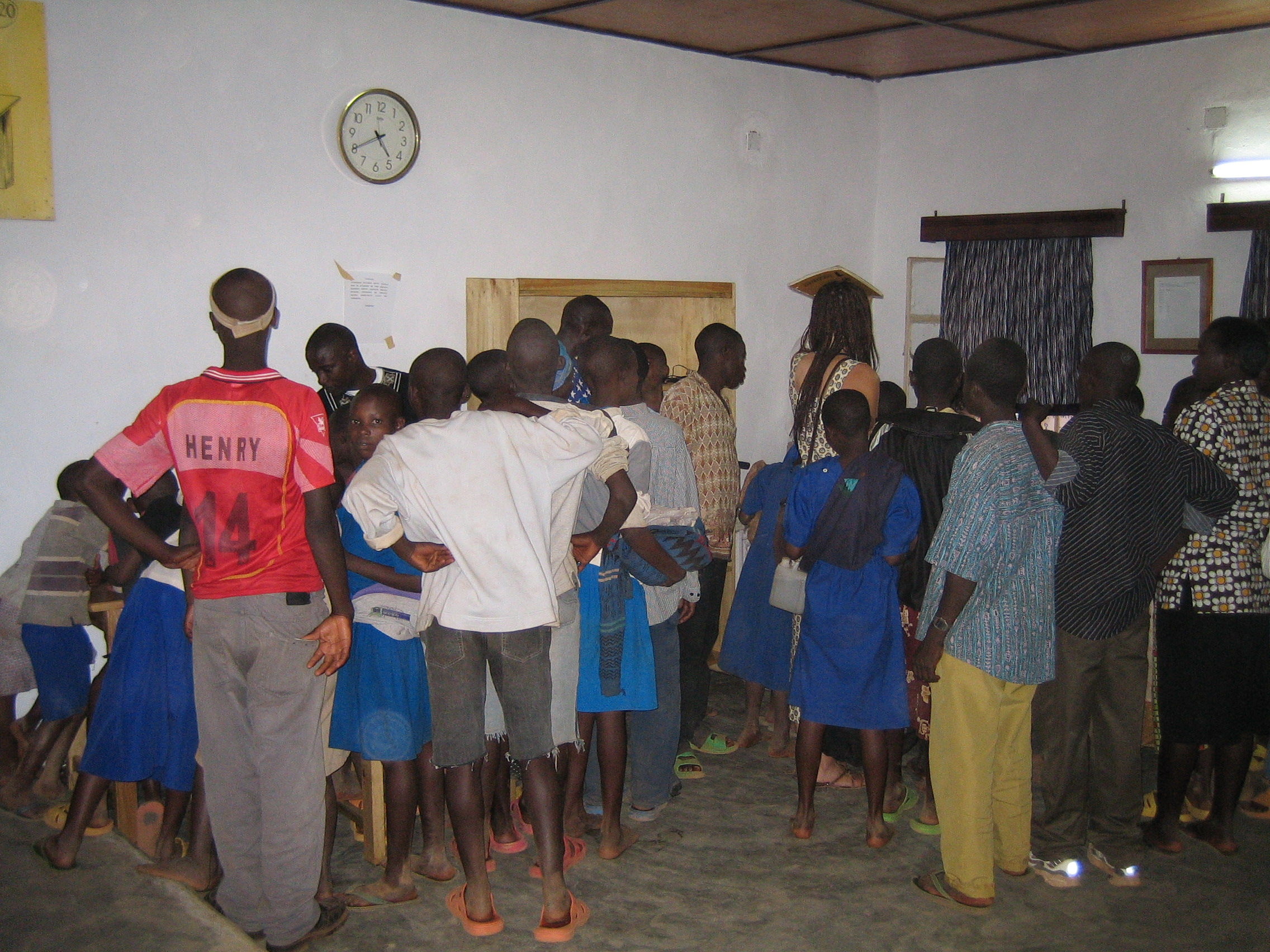 Picture of the newly opened Maraba telecentre in southern Rwanda Taken by SteveRwanda